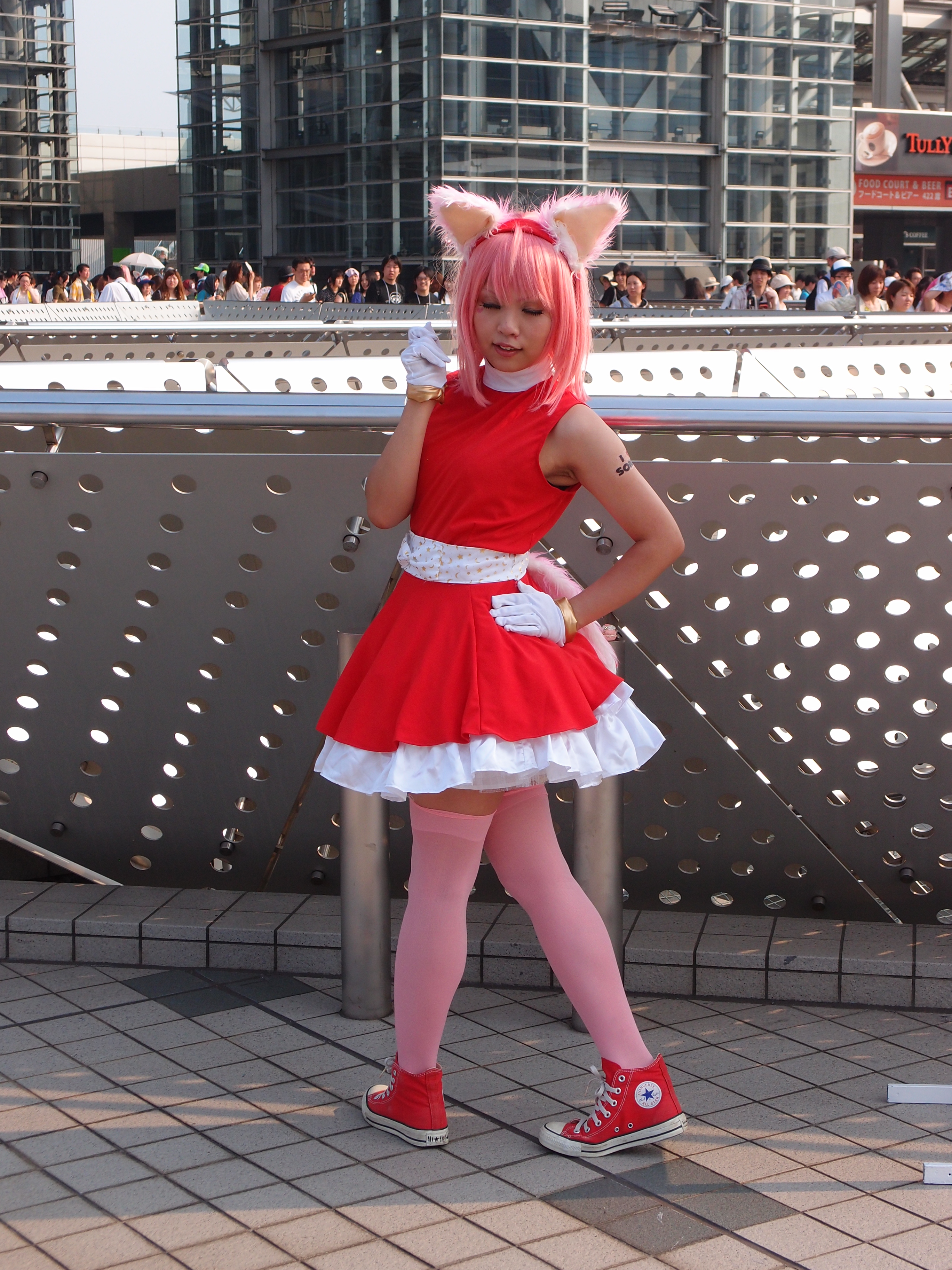 Cosplay @ Comiket 84 - Summer 2013 @ Tokyo Big Sight